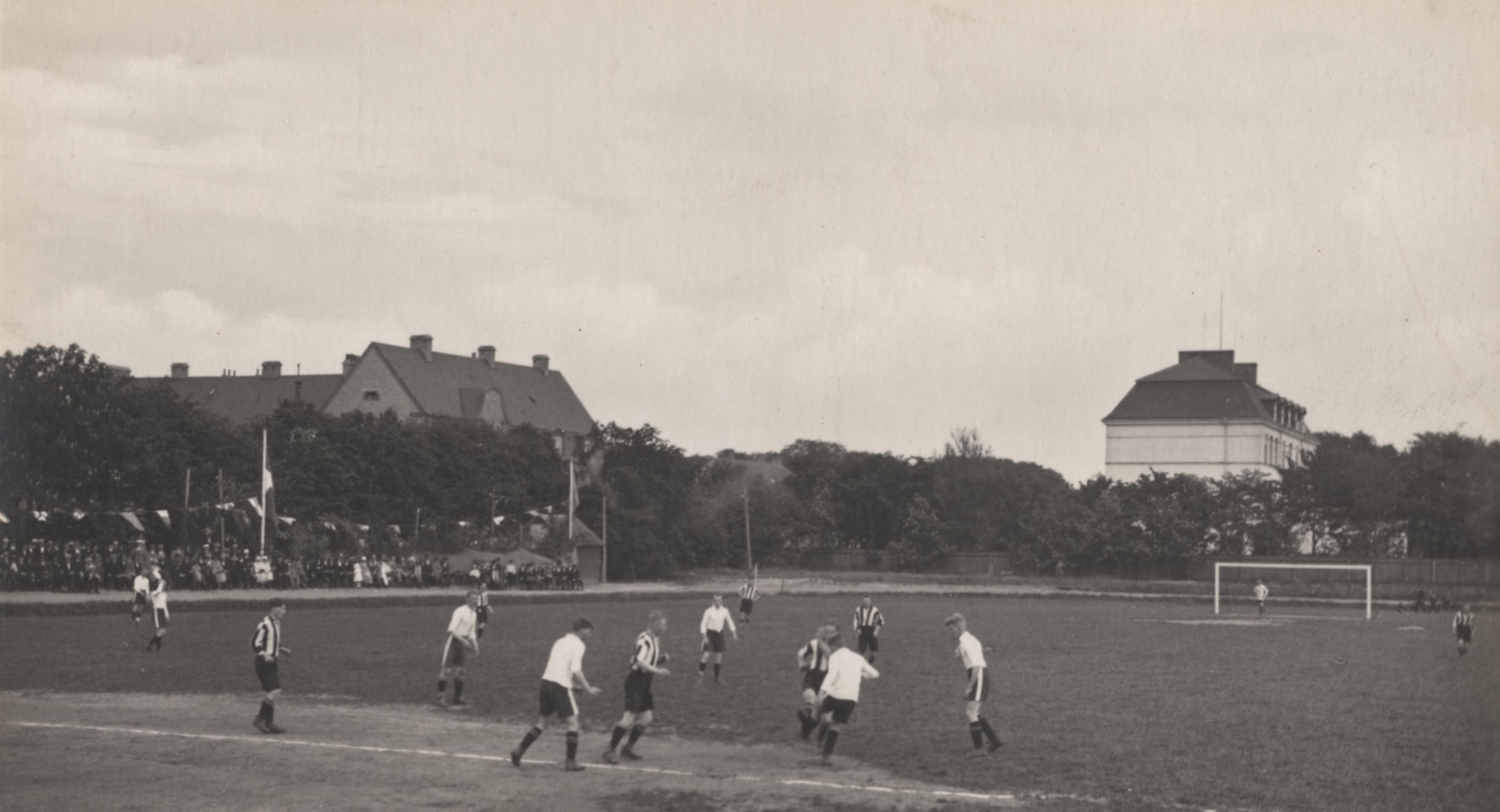 The old sports grond in Landskrona, Scania, Sweden, Velocipedbanan, or "Banan". Photo from 1920. No longer existing. A new football ground was opened in 1924.